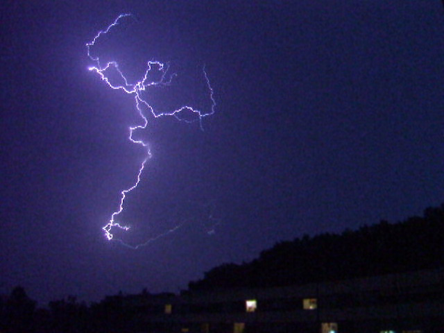 Intracloud lightnings over Toulouse (France). Eclairs intra-nuageux sur Toulouse(France).